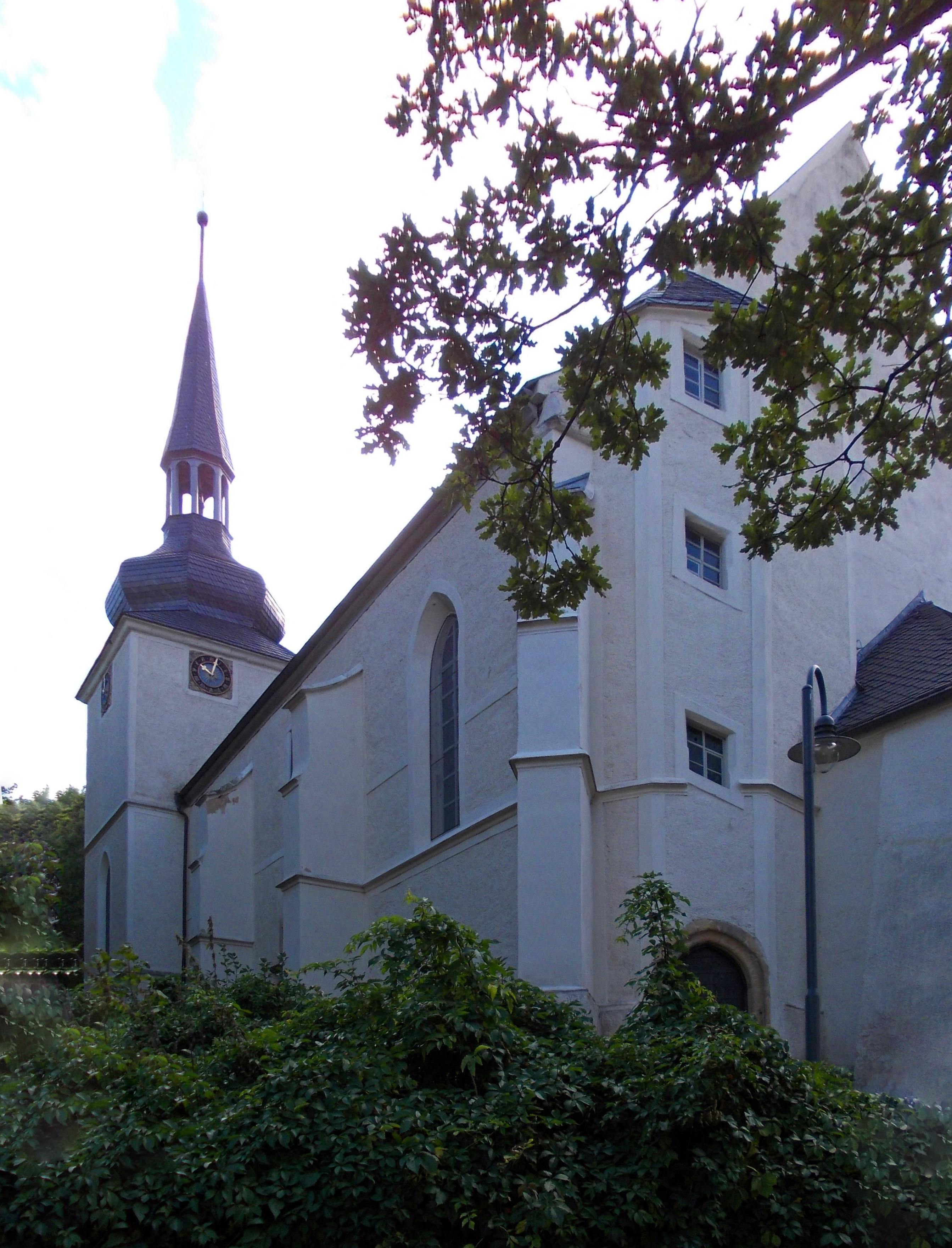 St. George's Church in Teuchern (district of Burgenlandkreis, Saxony-Anhalt)